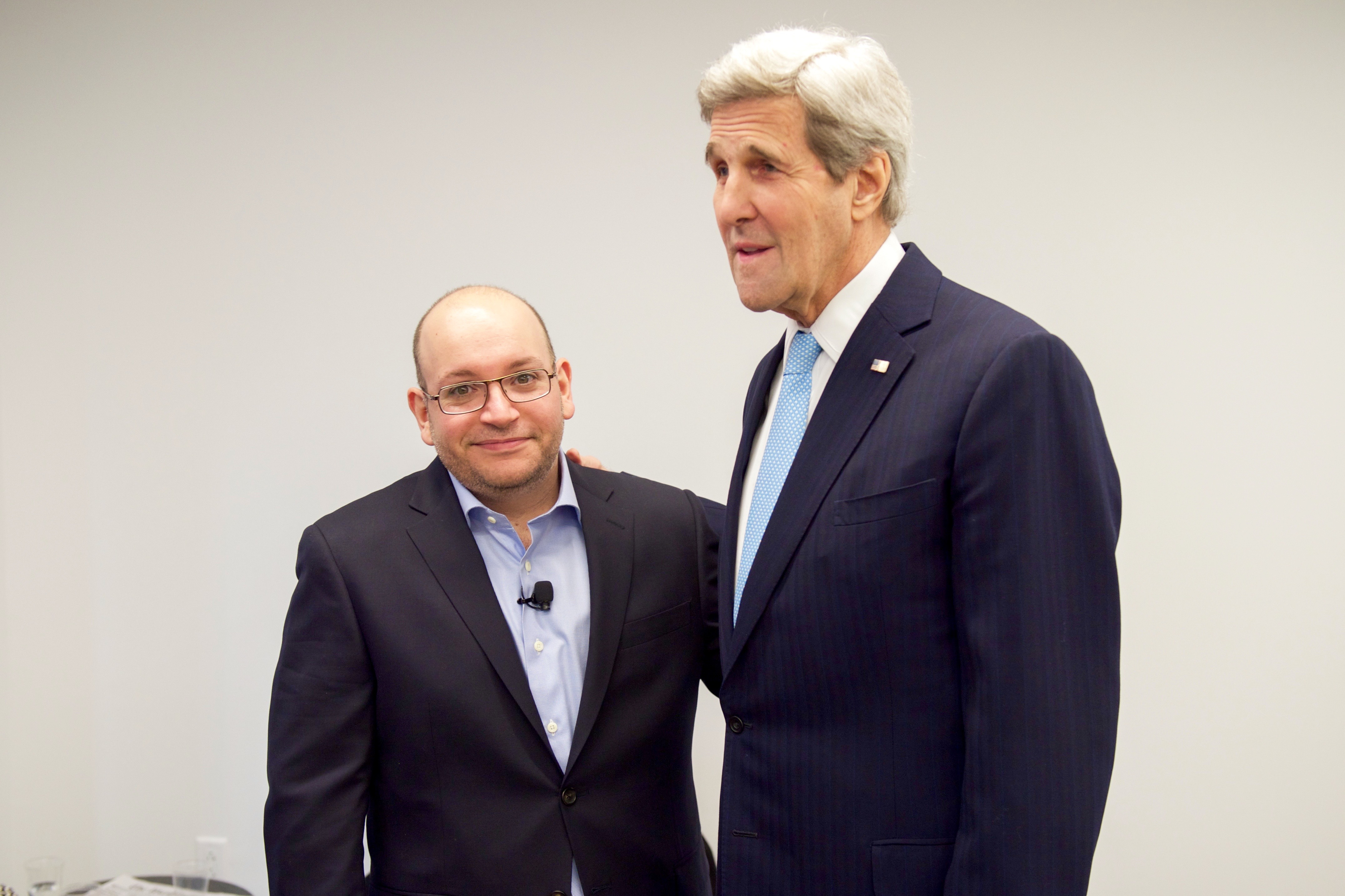 U.S. Secretary of State John Kerry stands with Washington Post reporter Jason Rezaian - who he worked to free after he was unjustly held in Iran for 18 months - before the two attended a ceremony on January 28, 2016, to dedicate the new Post headquarters in Washington, D.C. [State Department photo/ Public Domain]